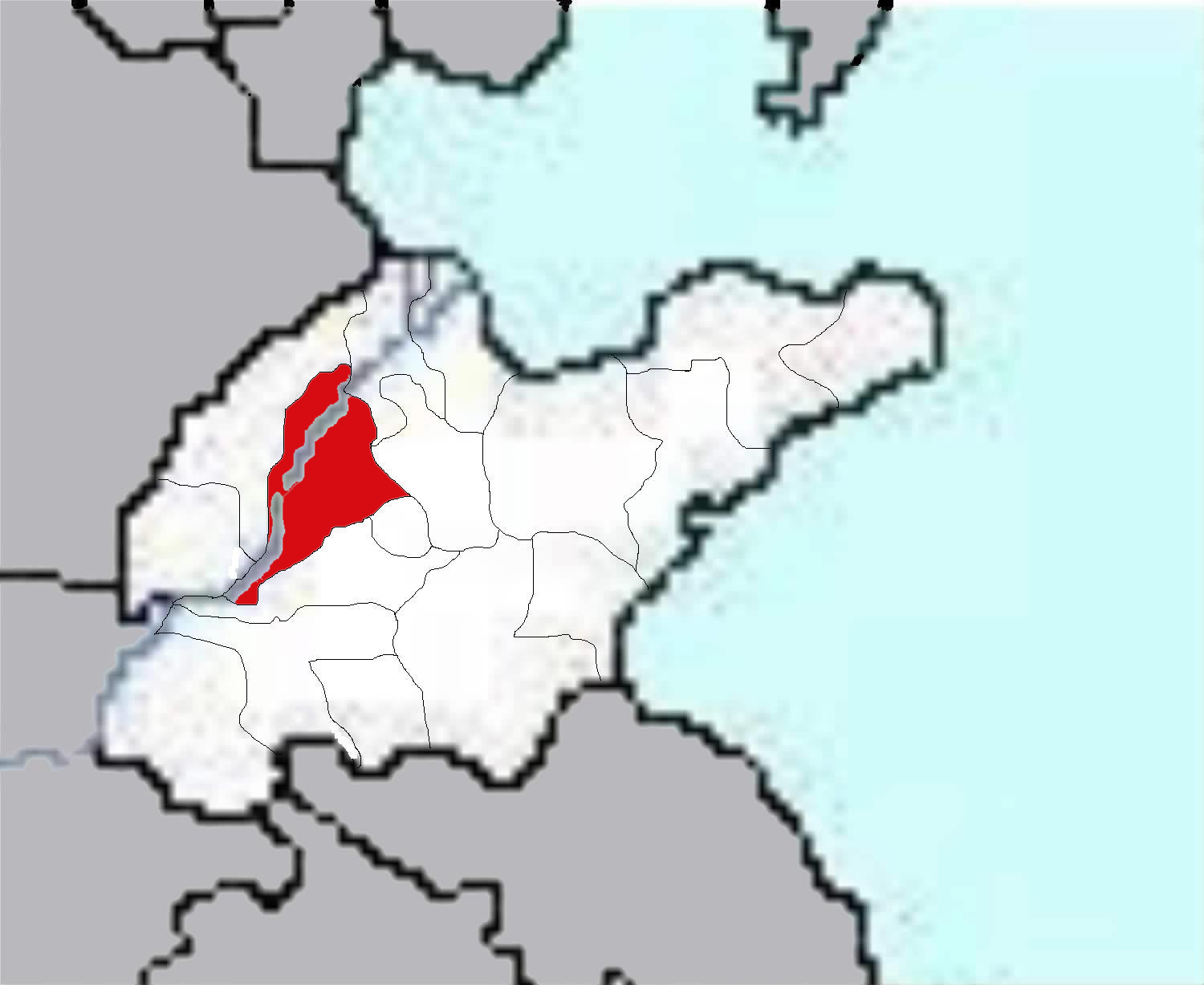 Map of Shandong Province of China